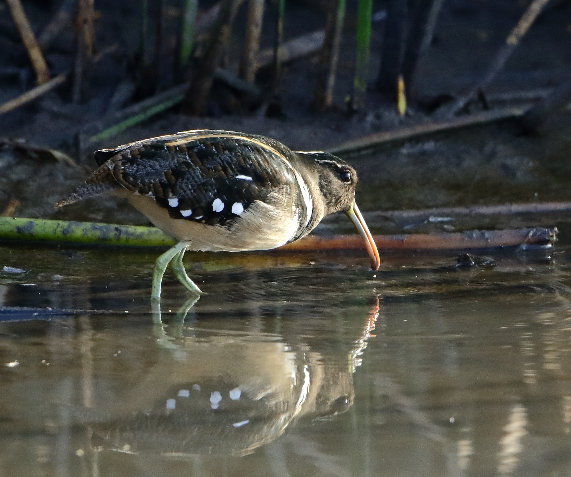 American-painted snipe at Huanqueros - Santa Fe - Argentina